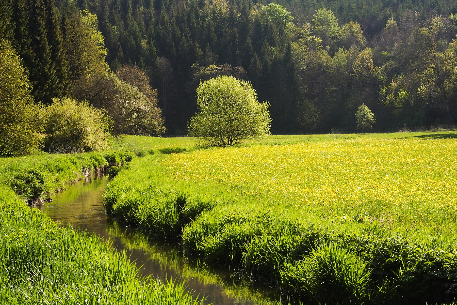 The last 9km of river Fehla are a nature reserve. In this section of the valley there are absolutely no roads, no rails, no settlements, no houses, just a path with occasional wanderers or bikers: it is absolutely quiet.Water of the rivulet partly seeps away resurging partly in the karstspring "Image Gallusquelle" in "Hermentingen", in the valley of river Lauchert, ca. 13km from here.